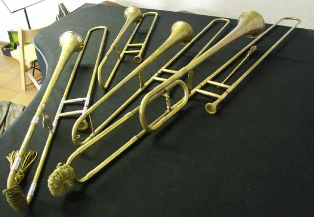 Four sackbutts: tenor, alto, tenor, bass